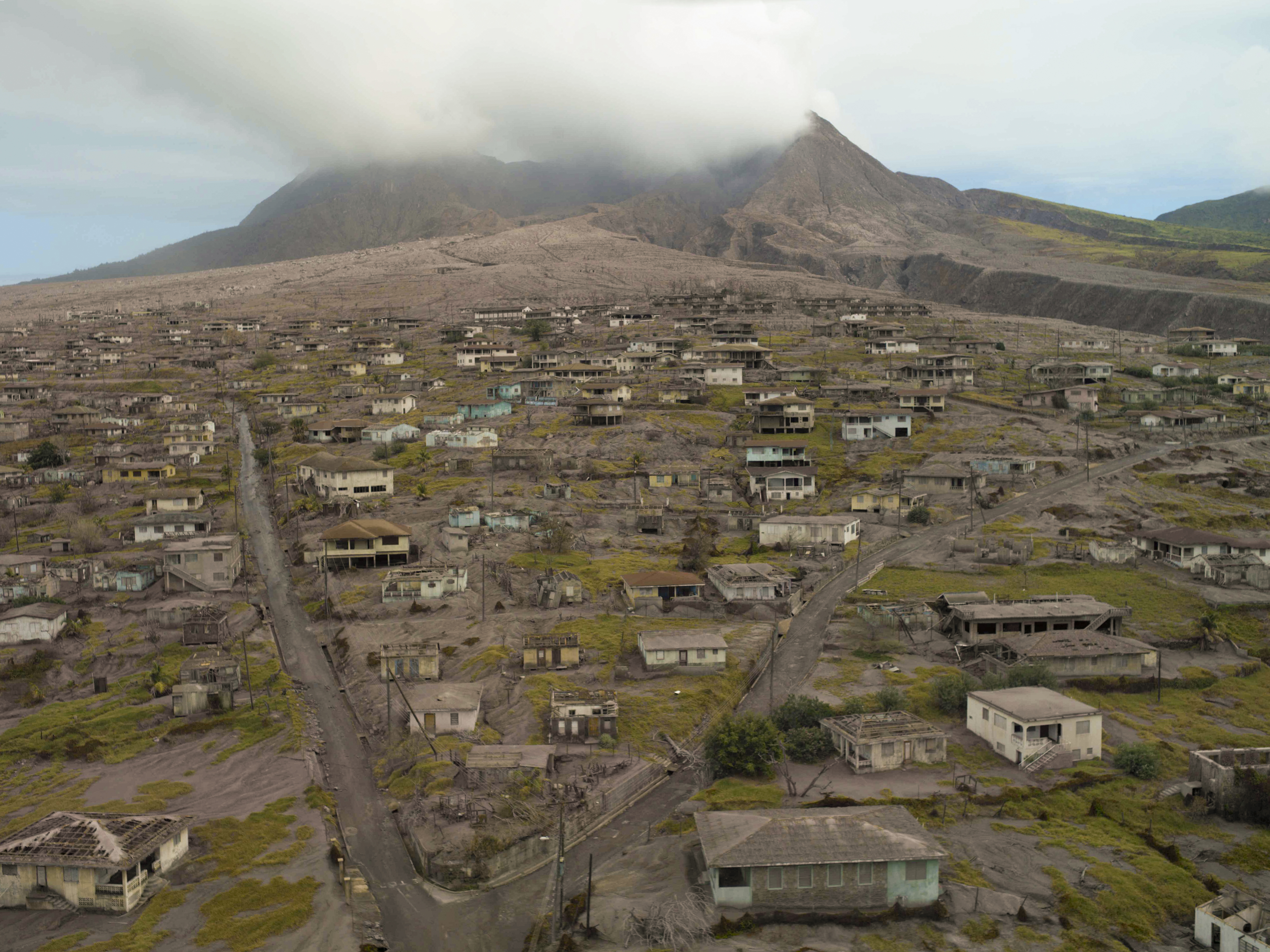 On the island of Montserrat, Soufrière Hills Volcano erupted in 1997 (and several times subsequently), destroying the capital city of Plymouth.